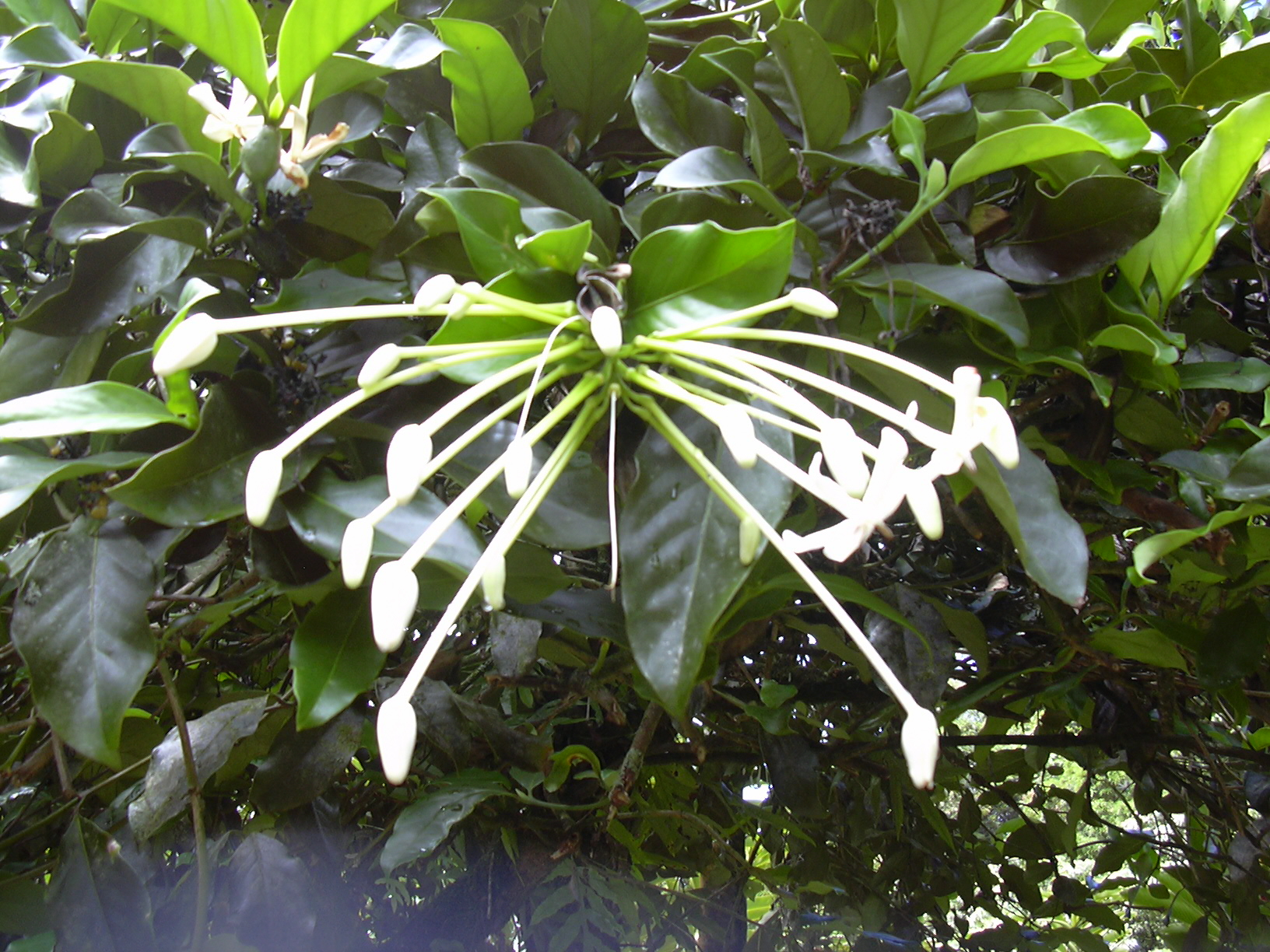 Posoqueria latifolia (flower). Location: Maui, Keanae Arboretum